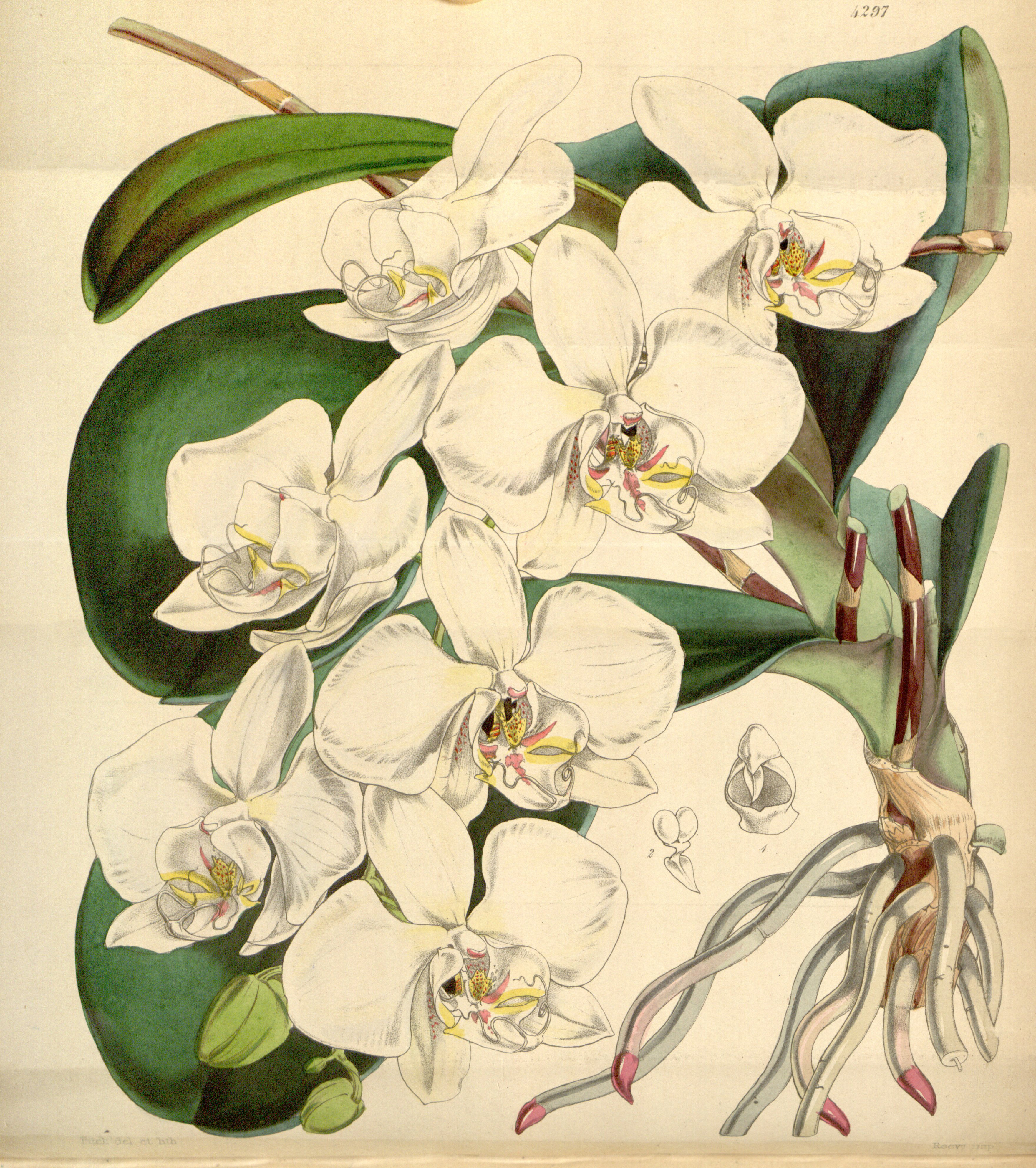 Illustration of Phalaenopsis amabilis